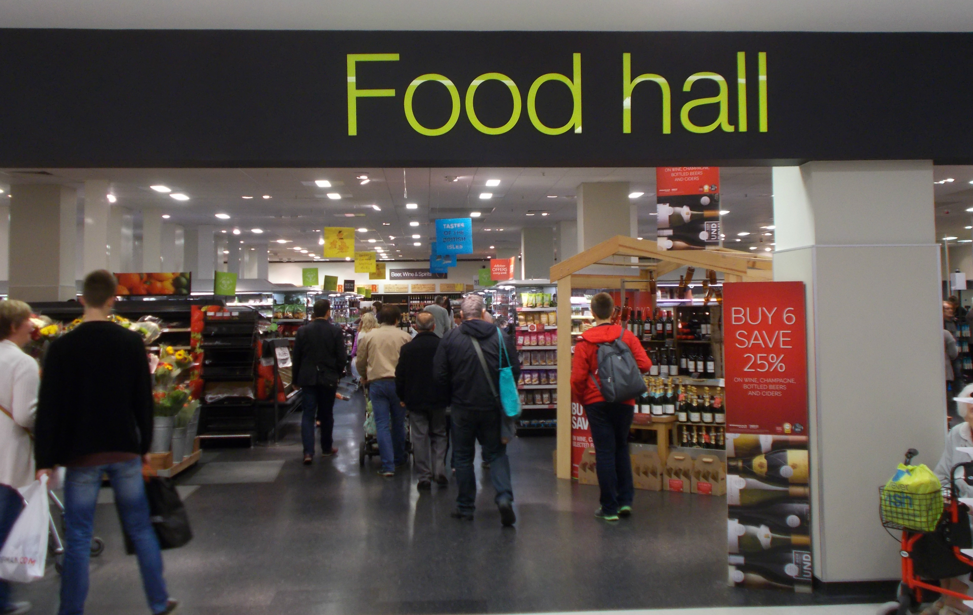 M&S Food Hall, SUTTON, Surrey, Greater London